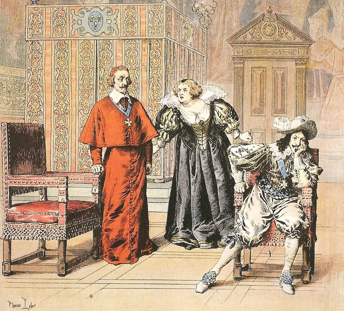 Depicted people: Cardinal Richelieu, Maria de' Medici and Louis XIII of France – depicted building: Palais du Luxembourg (Interior)